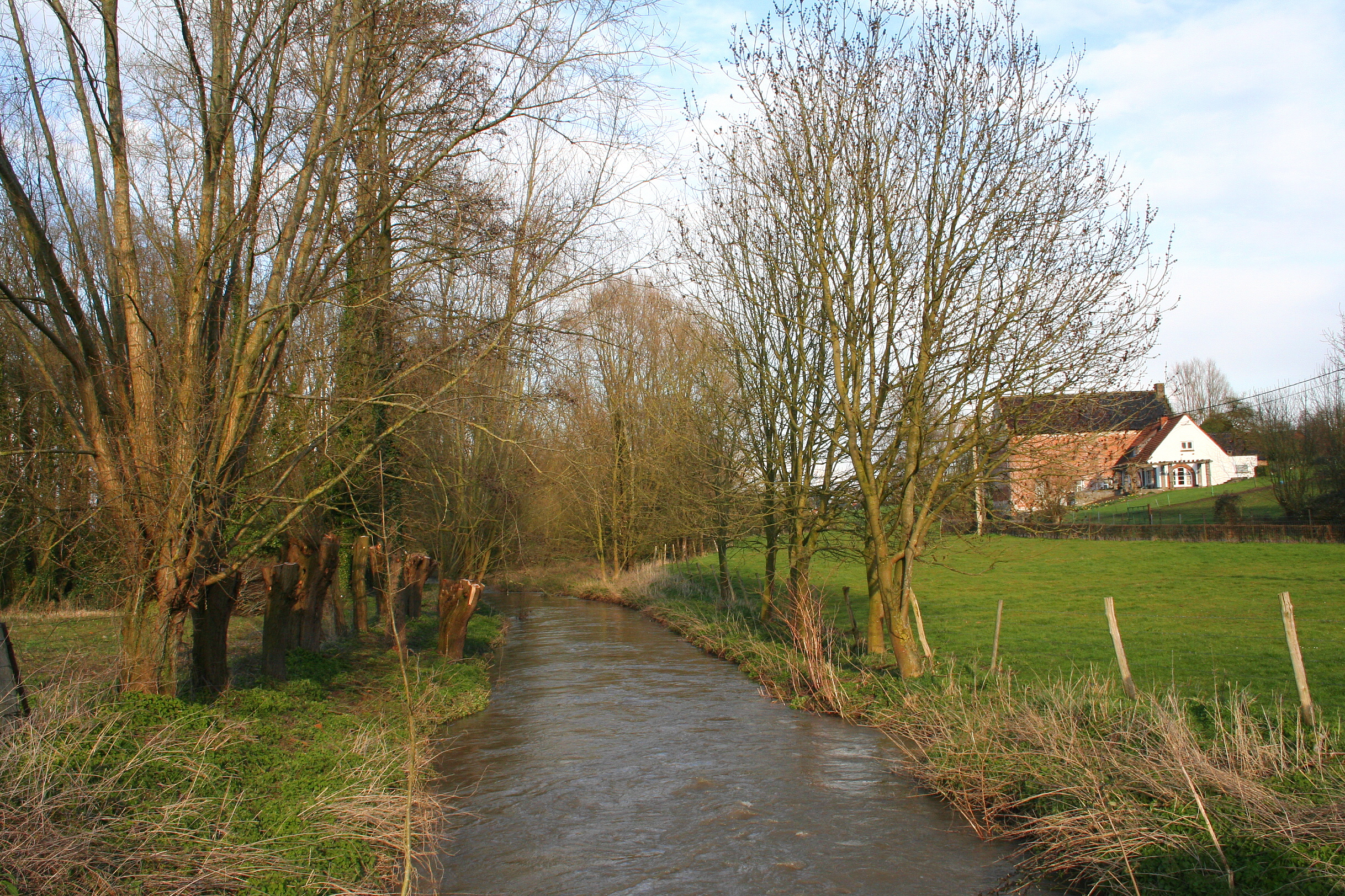 Irchonwelz (Belgium), the Dendre Occidentale viewed from the Mouchon bridge. Walon: El Chonwé (Bèljike), li Coûtchantrèce Tinre vèyuwe do pont Mouchon.